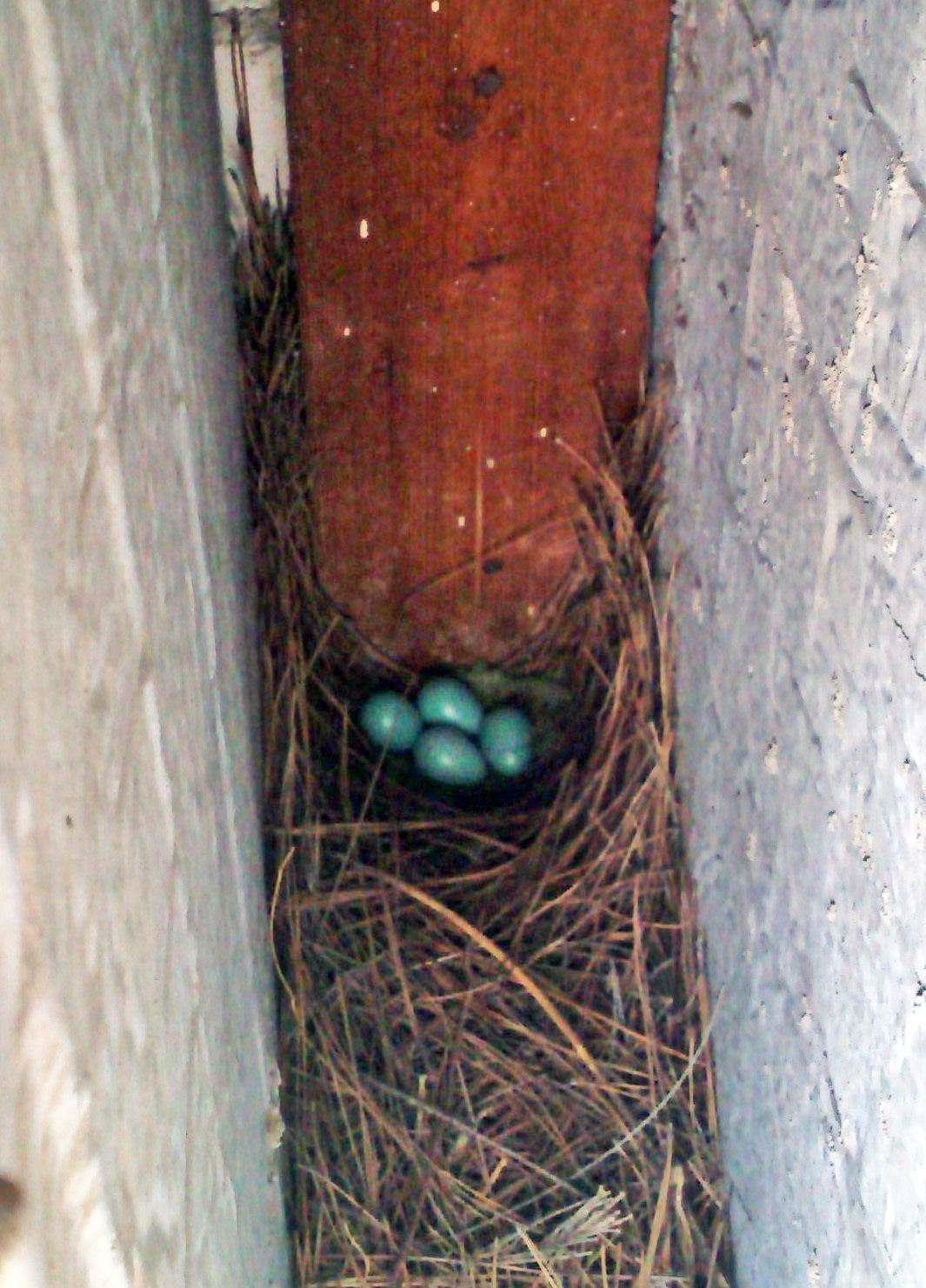 Acridotheres tristis nest in israel - kfar hadasim